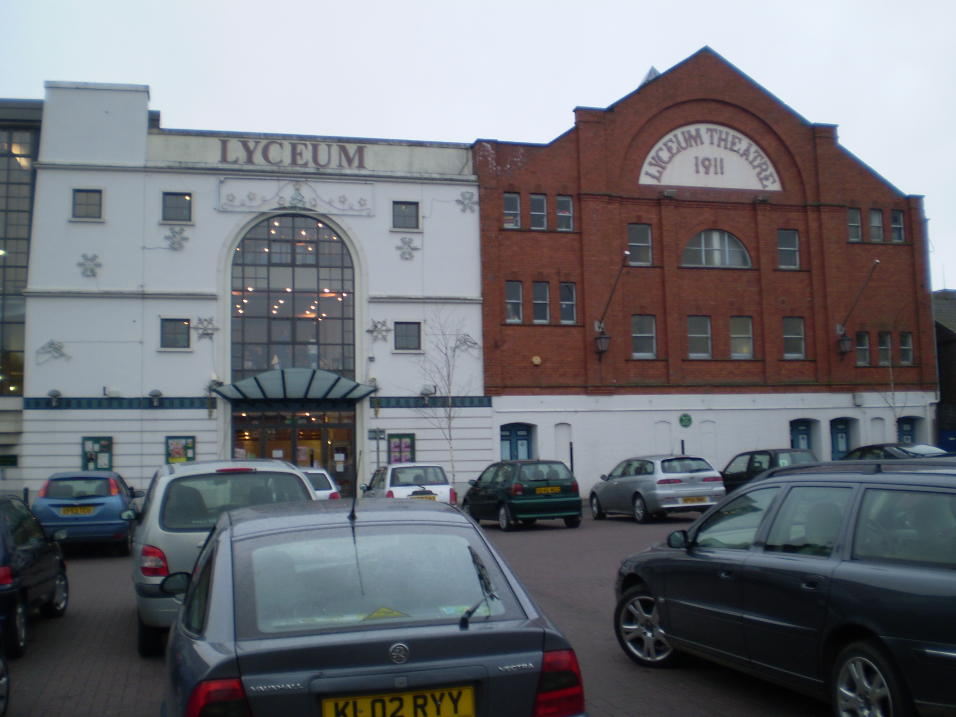 Lyceum Theatre, Crewe, Cheshire, UK - one of the finest surviving Edwardian theatres in northern England